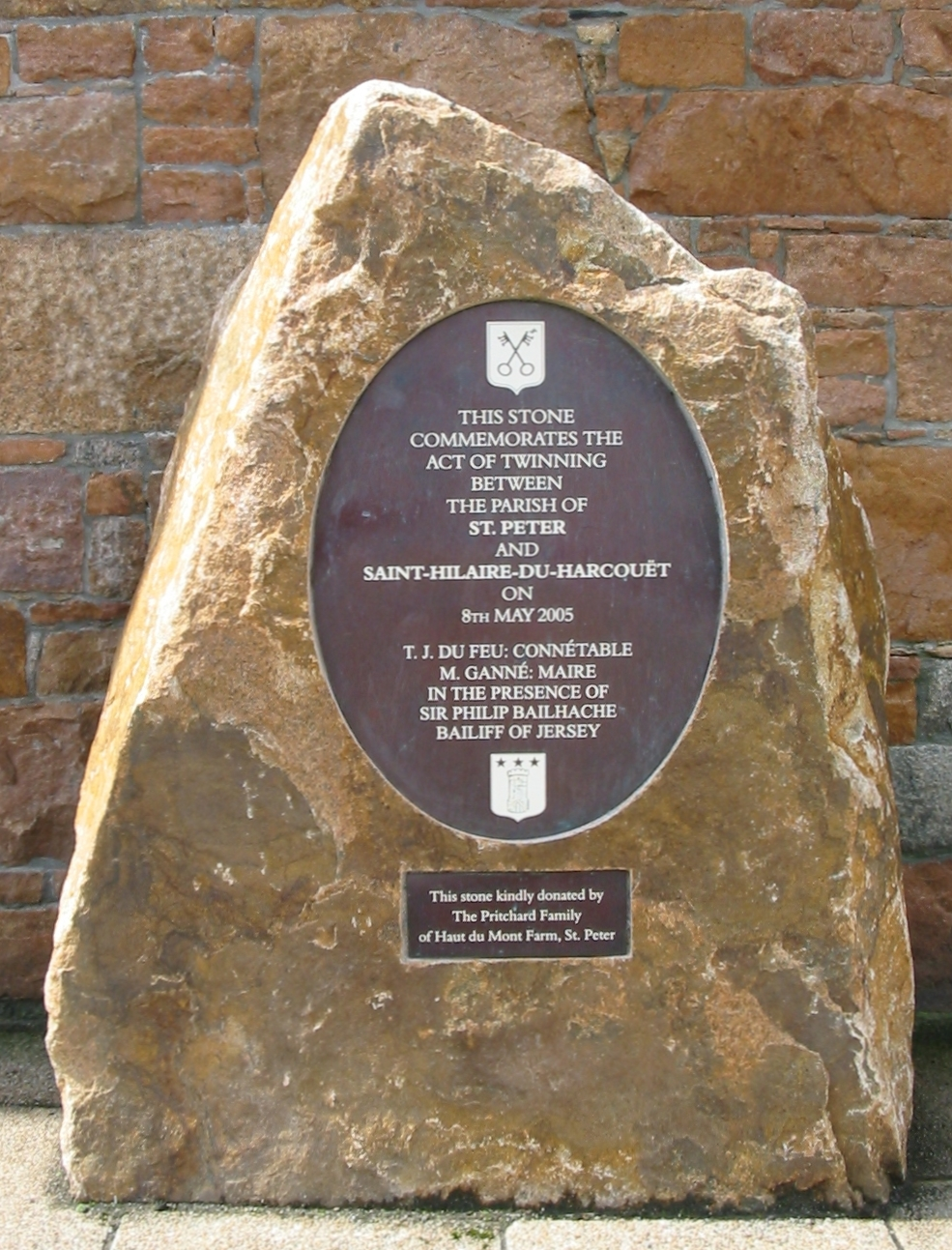 Jersey